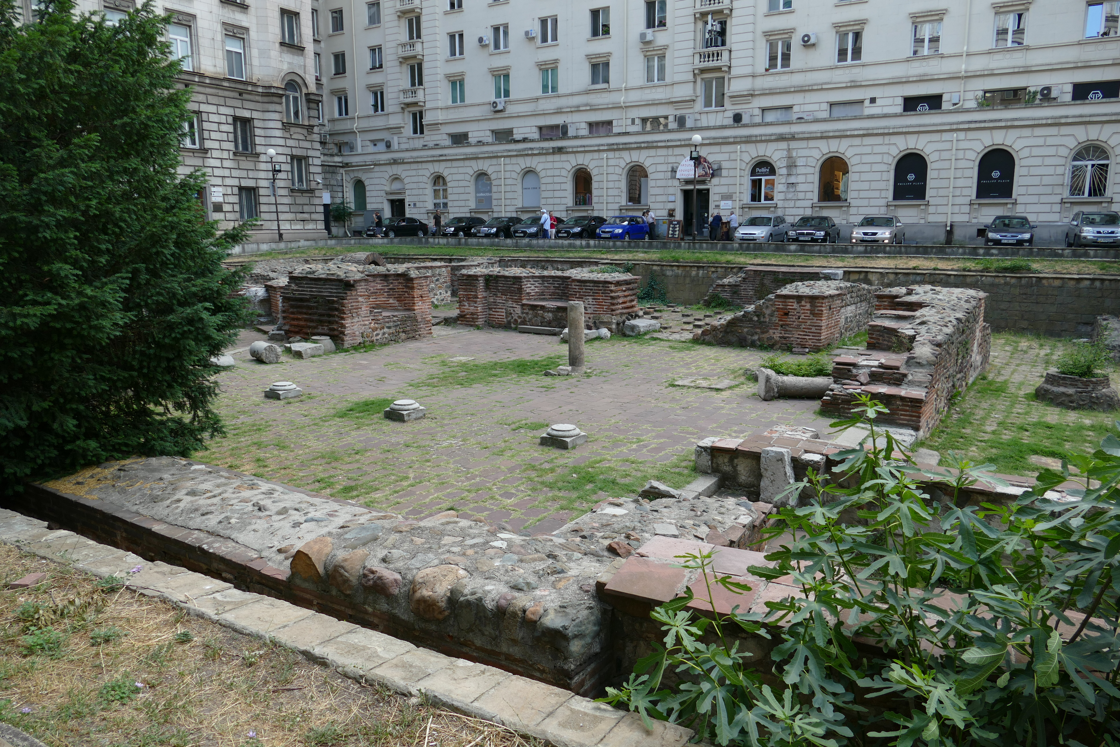 Excavations at St. George church, Sofia